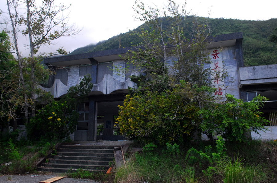 SinCheng Station is a small local train station of North-Link Line, part of Taiwan's eastern rail line. It is located within the boundary of SiouLin Township, HuaLien County. The station building itself was abandoned for a while and became a ruin. Only the platform of the station stay functional for a basic passenger service.